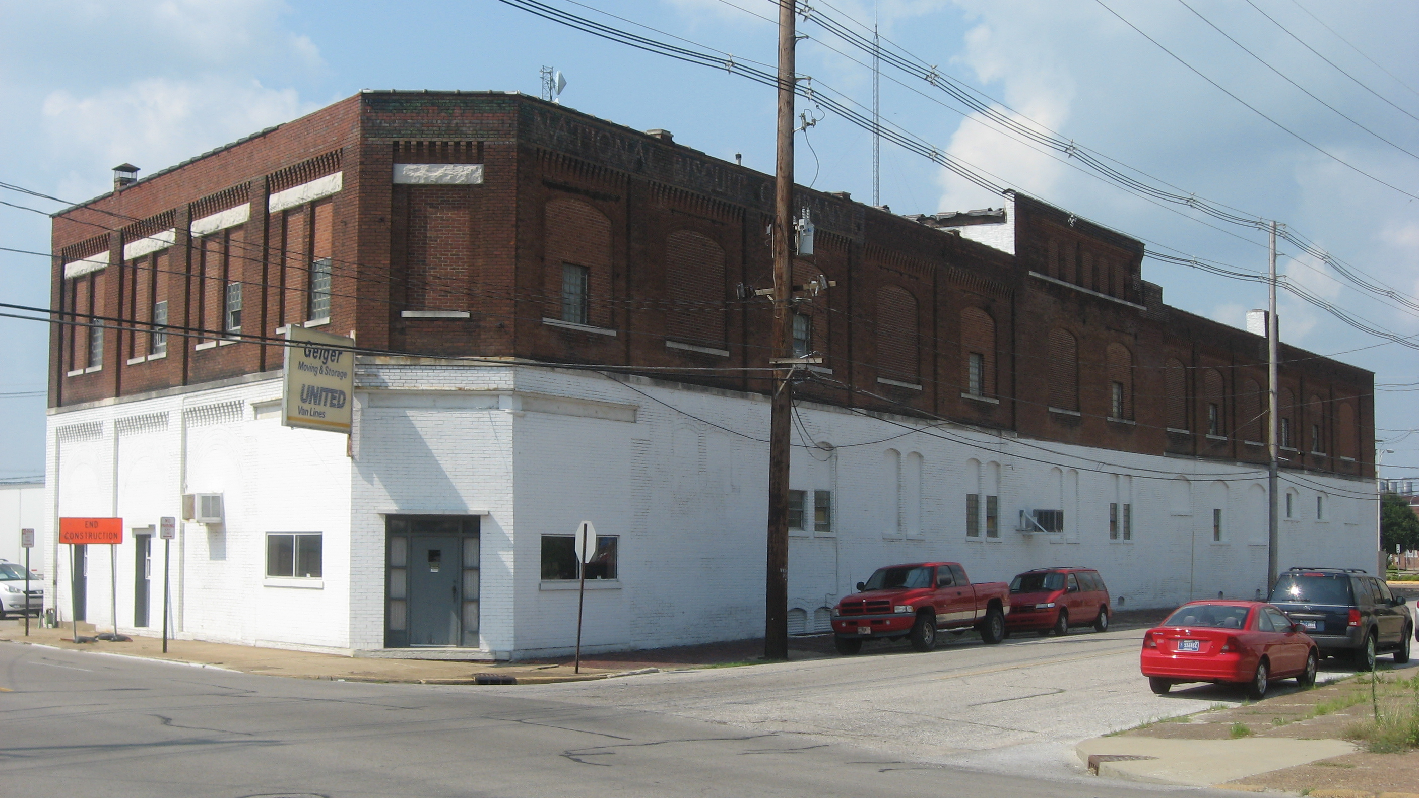 Front of the Fred Geiger and Sons National Biscuit Company, located at 401 NW. Second Street in Evansville, Indiana, United States. Built in 1894, it is listed on the National Register of Historic Places.